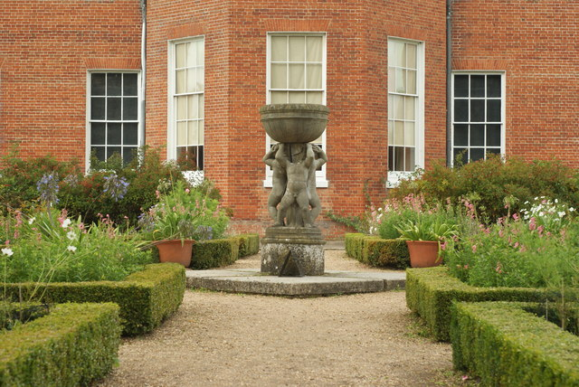 Garden at Hatchlands Park, Clandon, Surrey This garden, with its clipped box hedges, was designed by Gertrude Jekyll.